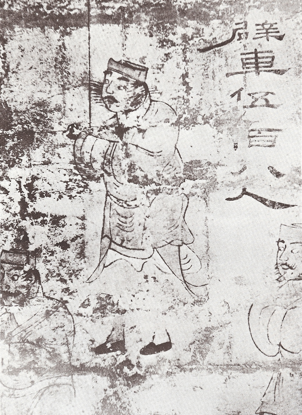 A painted mural of servants and other subordinates, from a Chinese Han Dynasty (202 BC – 220 AD) tomb at Wangdu, Hebei province.